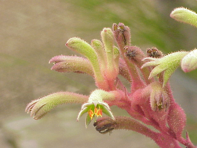 Species: Anigozanthos flavidus Family: Haemodoraceae Image No. 3